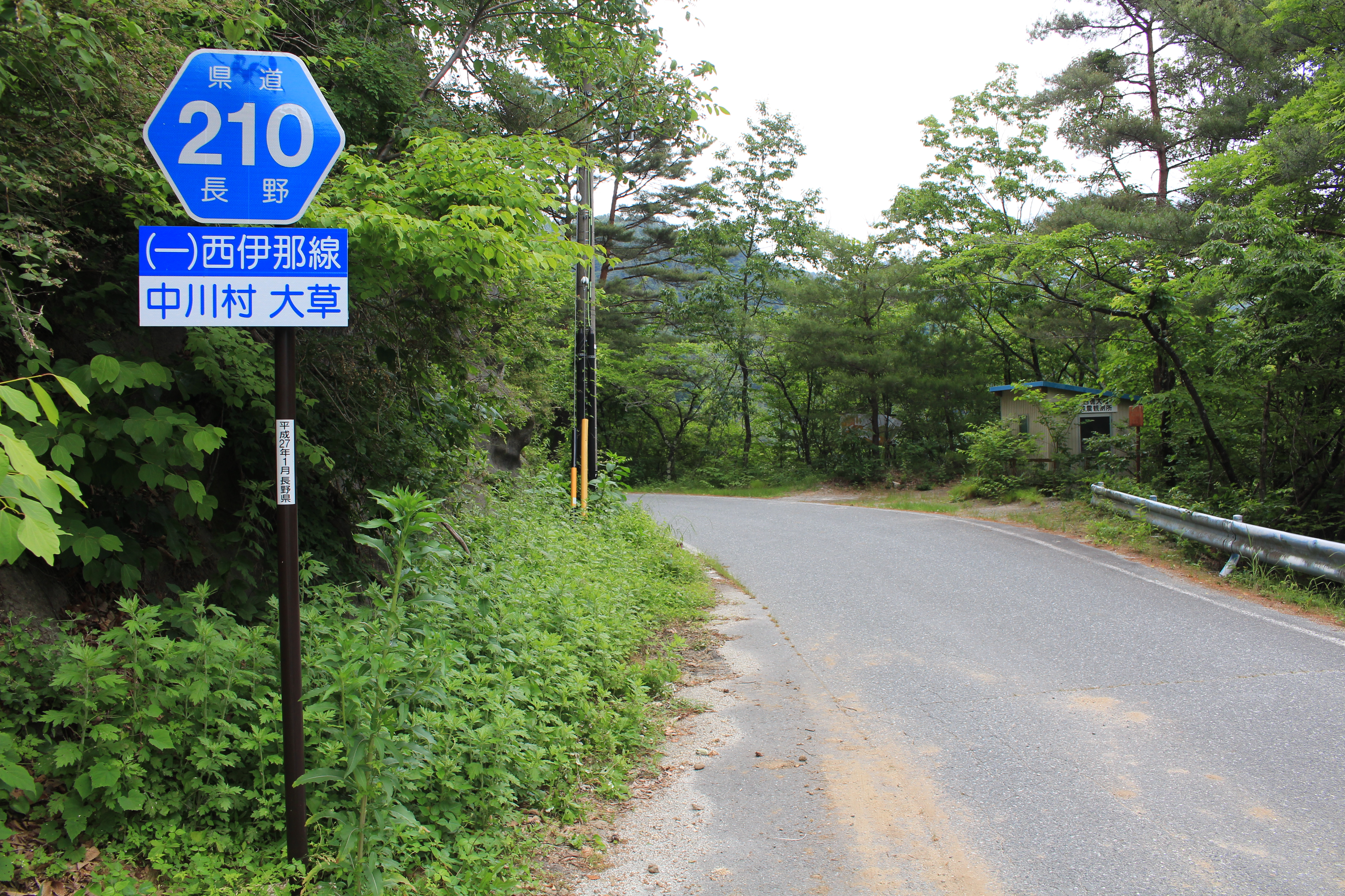 Nagano Prefectural Road Route 210 in Okusa, Nakagawa, Nagano prefecture, Japan.